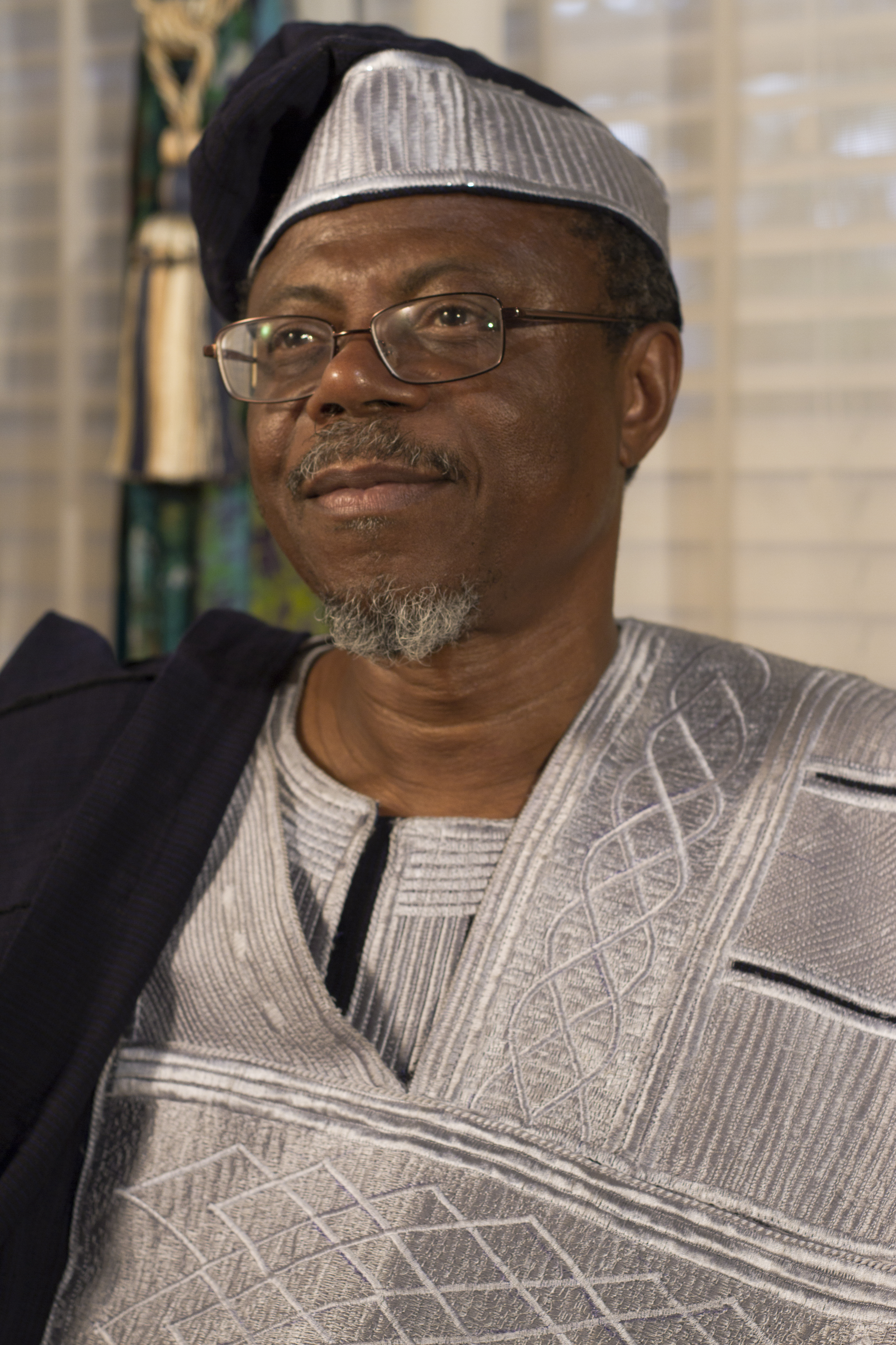 Chief Dr. Toyin Falola